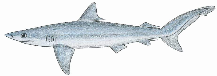 Carcharhinus signatus